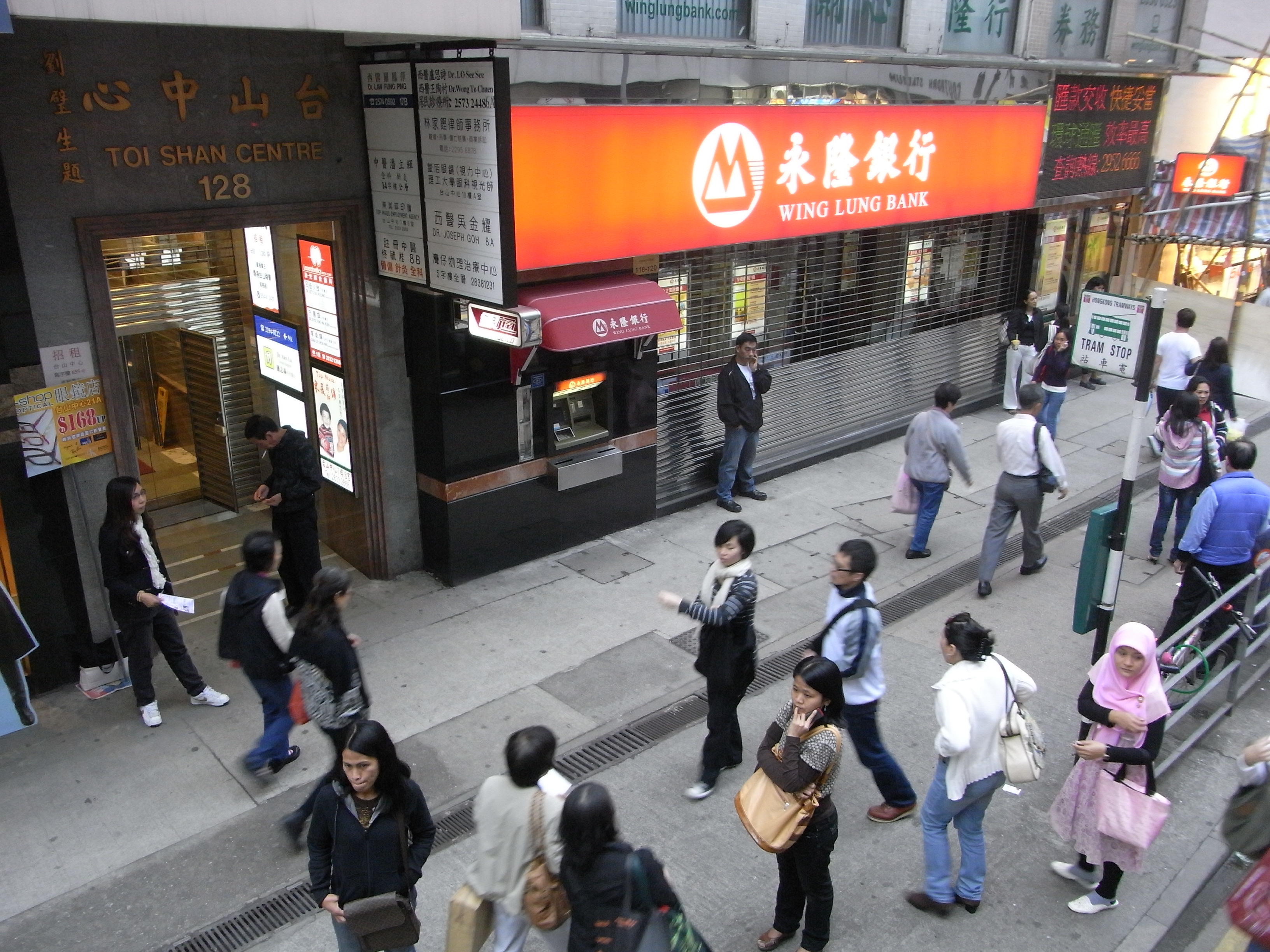 zh:2010年四月 莊士敦道 台山中心 永隆銀行